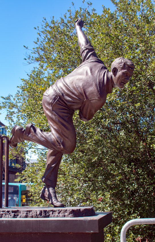 Statue of Sir Alex Bedser bowling by Allan Sly. On the north side of Bedser Bridge over the Basingstoke Canal, Woking